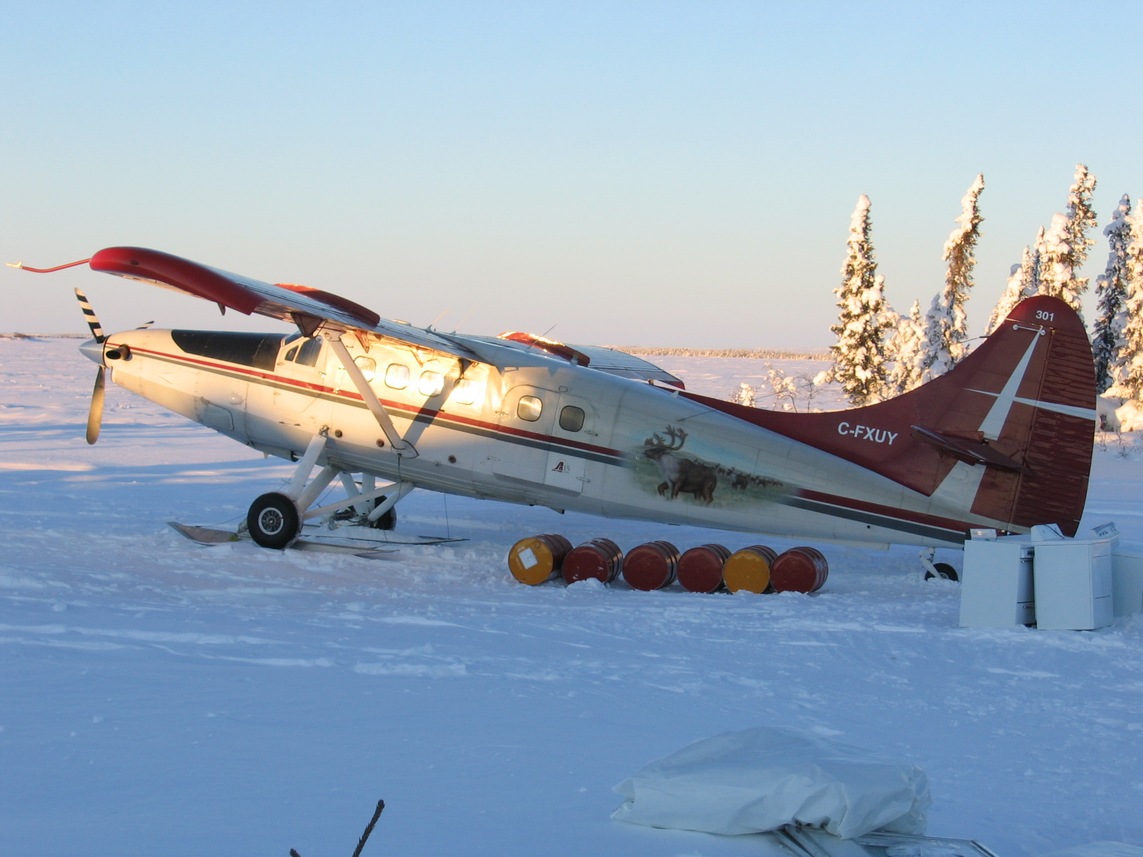 DHC-3 Turbo Otter (C-FXUY) on wheelskis